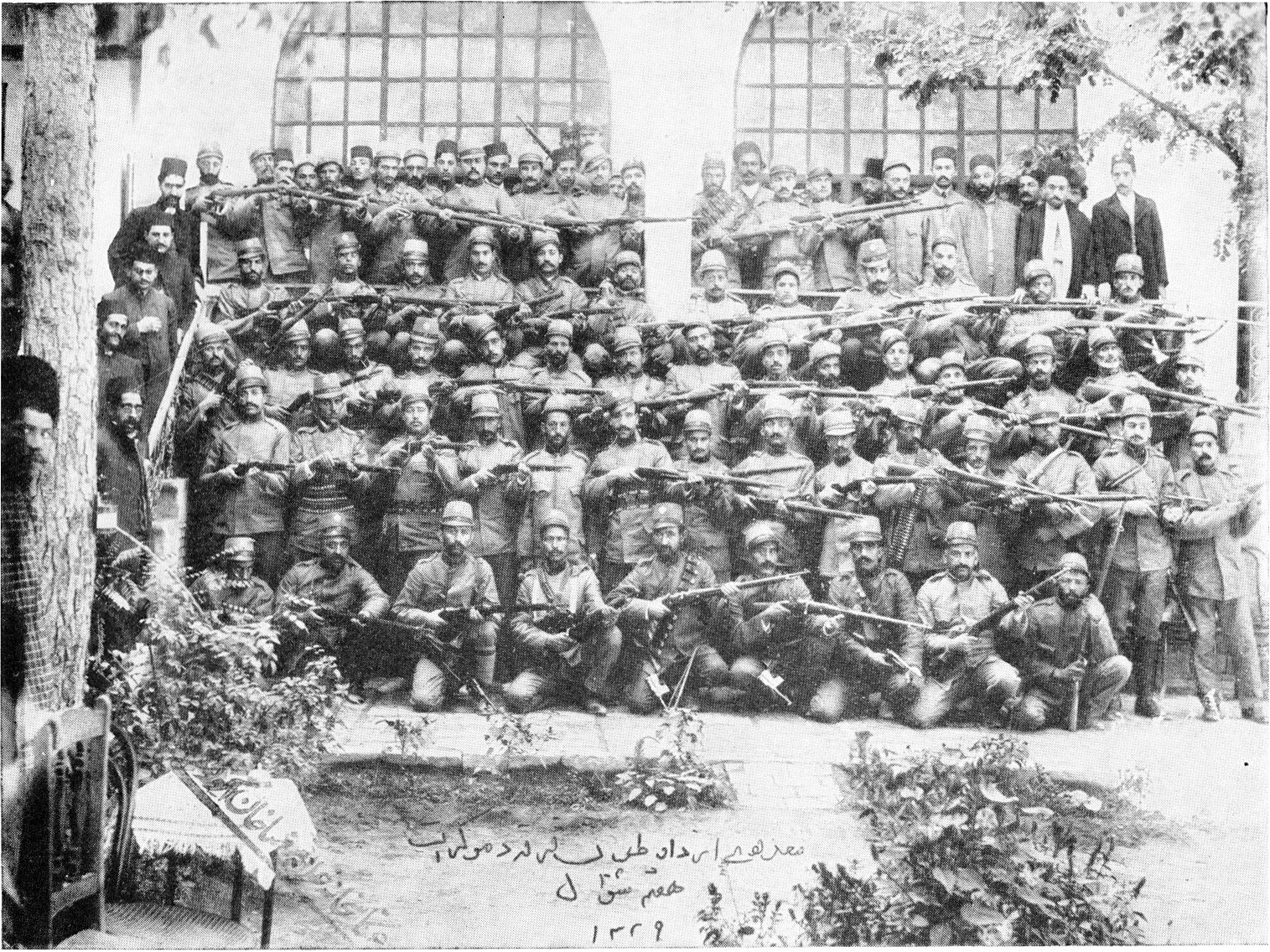 Volunteers fighting against troops of Mohammad Ali Shah for the constitutional movement, 1911